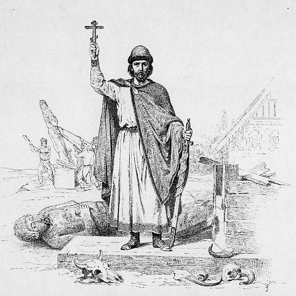 Vladimir I of Kiev.